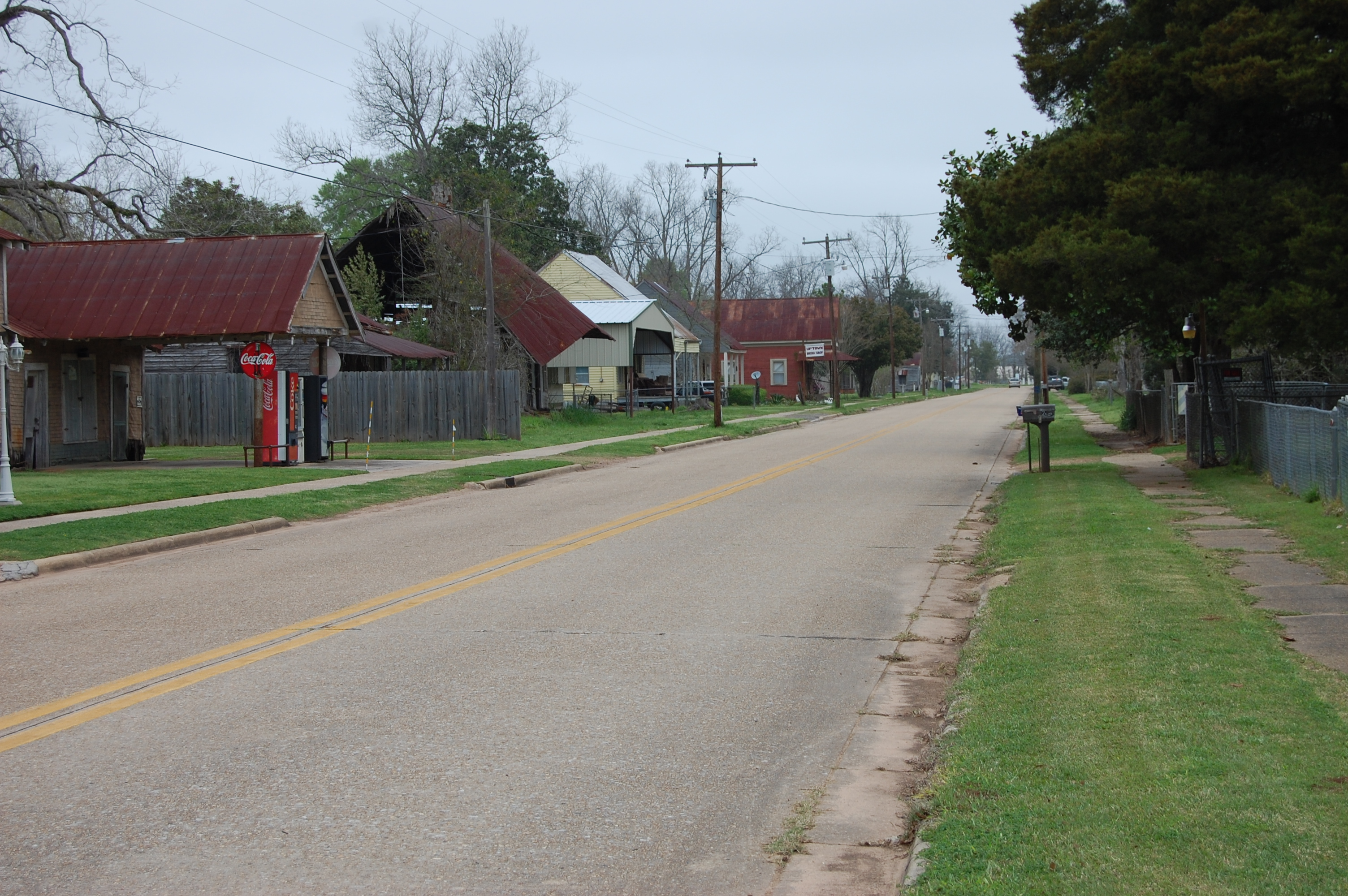 Photo taken of the main street in Cloutierville, Louisiana. Photo taken by me in March of 2009.